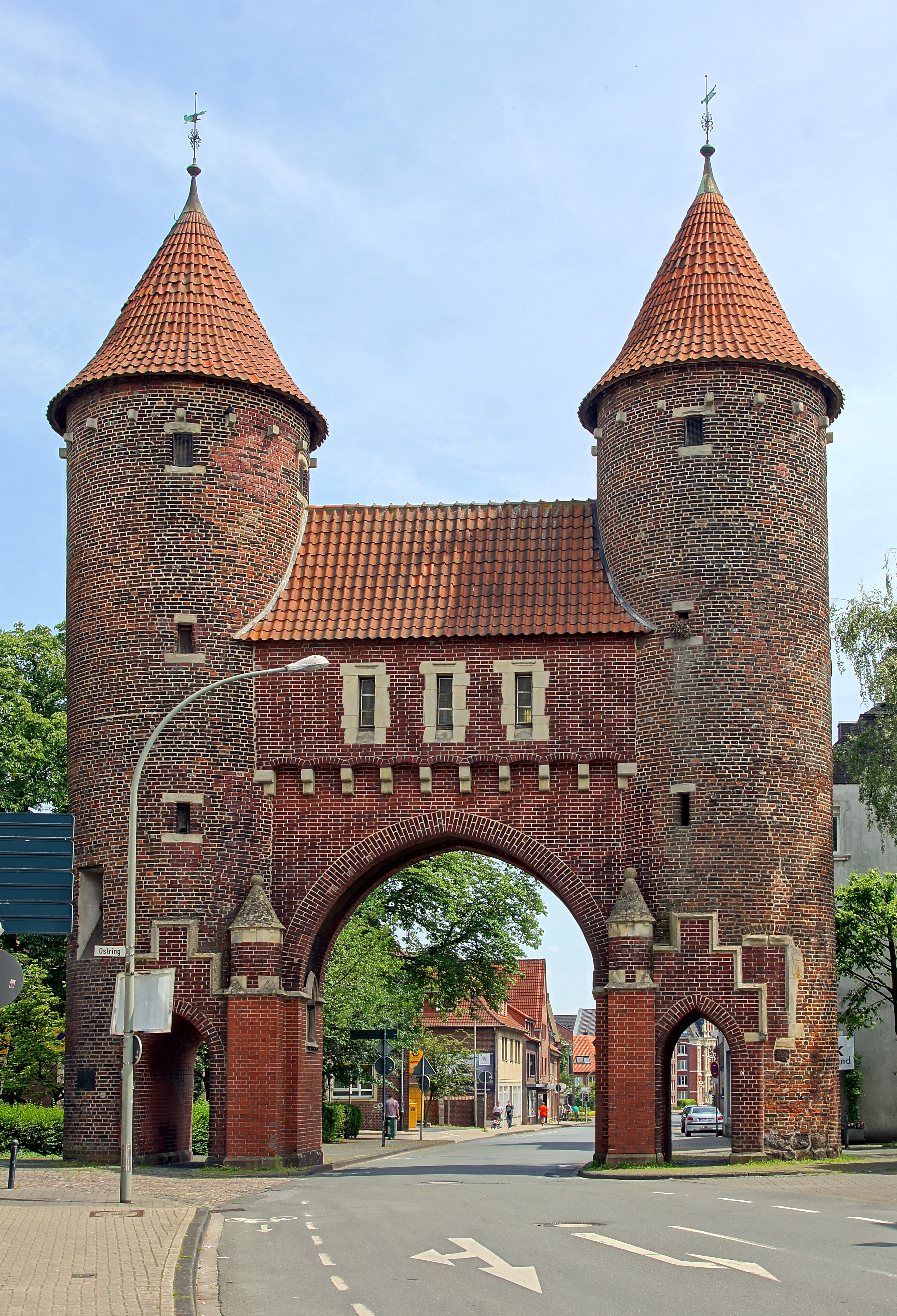 Lüdinghauser Tor is a city gate in Dülmen, district of Coesfeld, North Rhine-Westphalia, Germany. This is a photograph of an architectural monument.